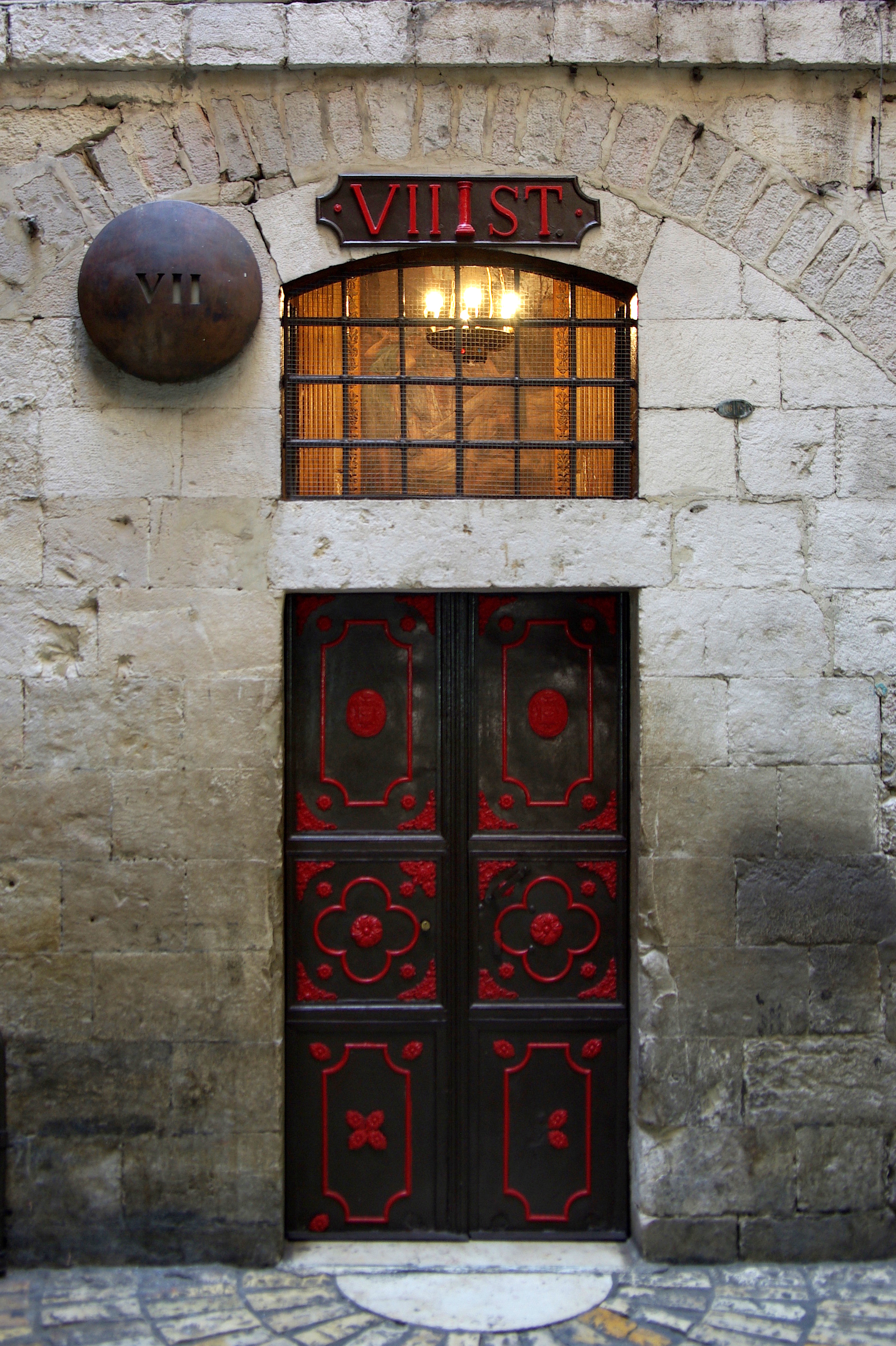 Jerusalem, Via Dolorosa, Station VII.